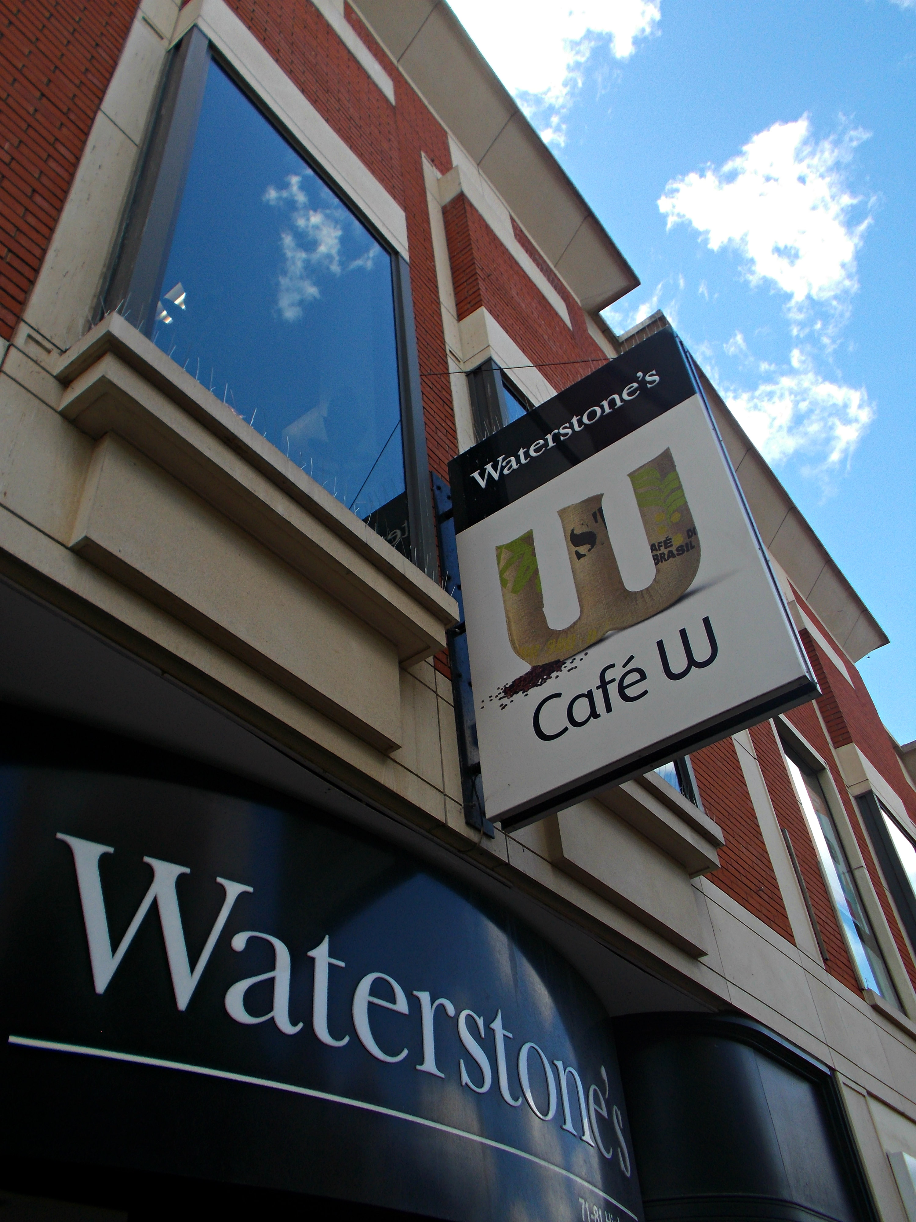 Waterstone's bookshop in Sutton High Street by Trinity Square, Sutton, Surrey, Greater London